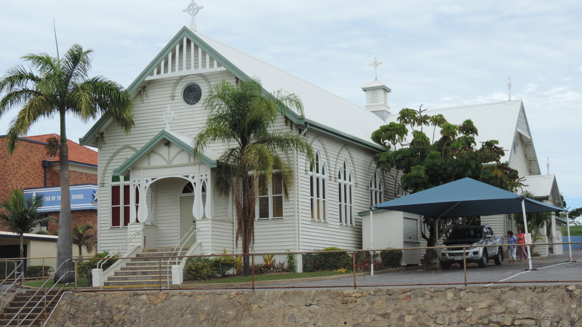 Our Lady Star of the Sea Catholic Church, corner of Goondoon Street and Herbert Street (view from Goondoon St), Gladstone, 2014